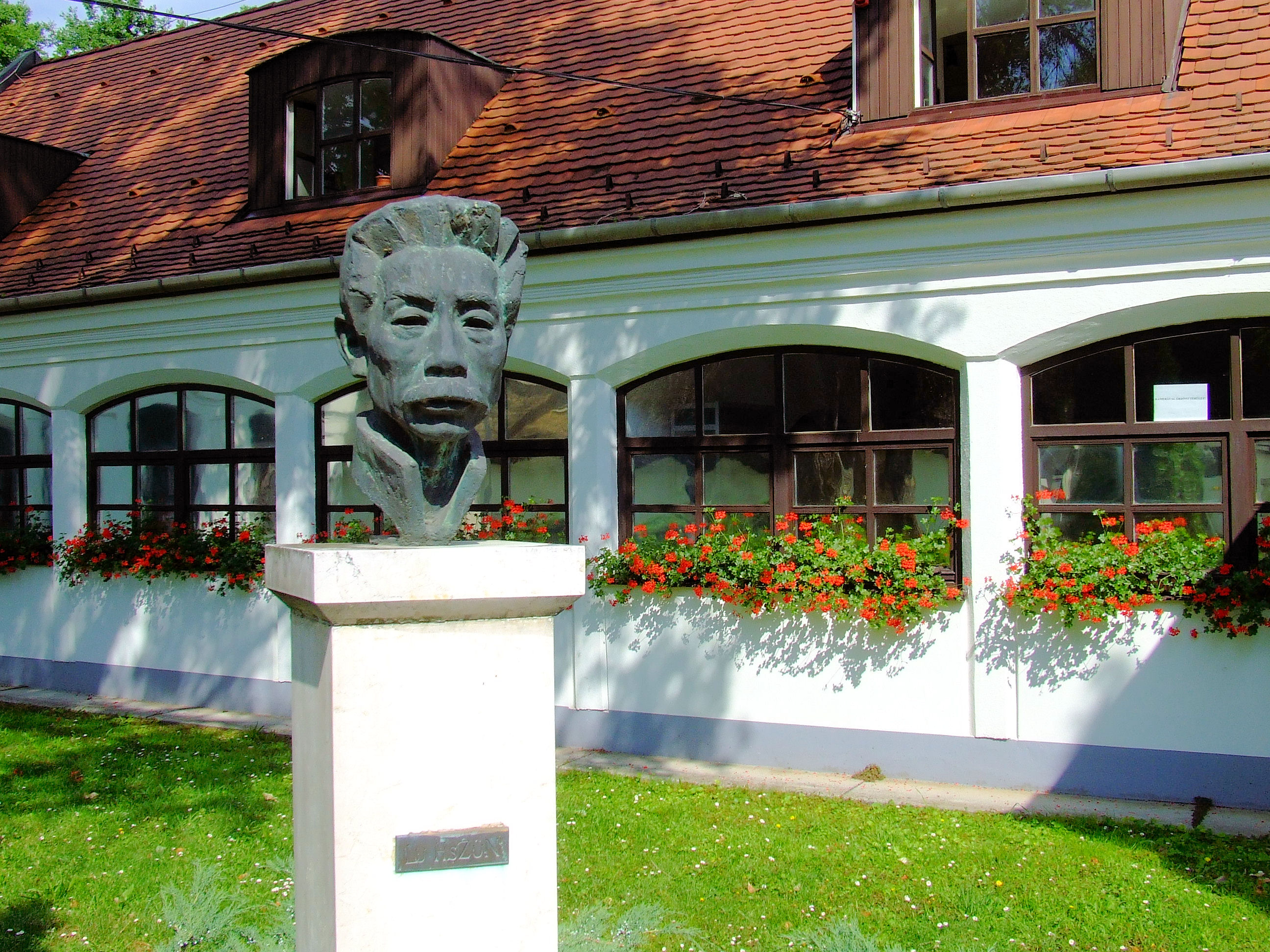 Lu Xun (1987 Bronze bust) in Kiskőrös, Petőfi Sándor Sculpture Park Lu Hszün (1881–1936) kínai író, műfordító szobra (Felállítás 1987, Sze-tu Cseo-kuang) Kiskőrösön, Petőfi Sándor fordítóinak szoborparkjában. Forrás:[1]